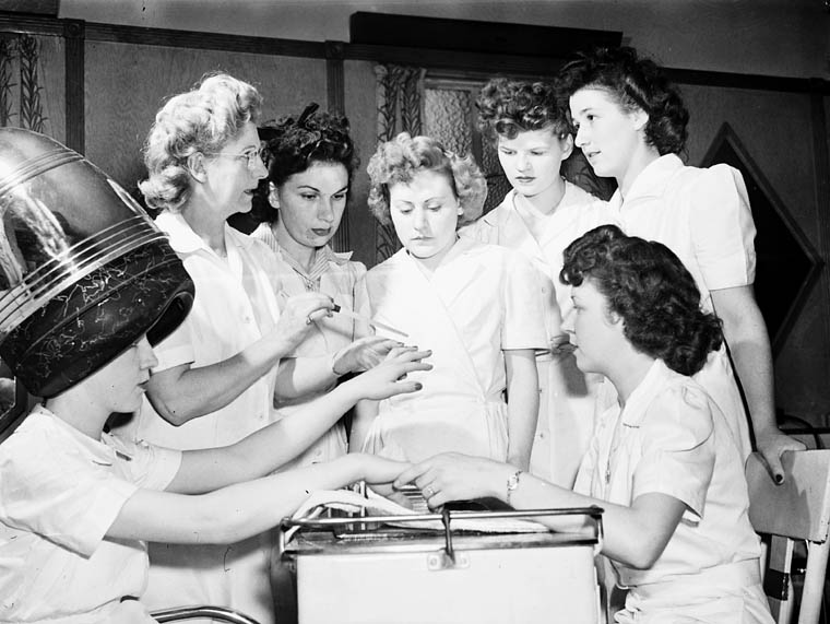 Ex-servicewomen learning manicure techniques during a retraining course on beauty parlour operation at the Robertson Hairdressing School, Apr 1945